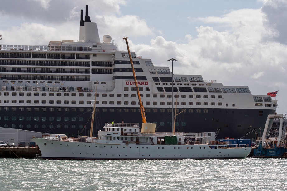 Lord Docker's motor yacht Shemara seen at Southampton Docks. Information about Shemara (yacht) may be found at IMO 8749717.A ship can change name and flag state through time, but the IMO number remains the same through the hull's entire lifetime. As a result, it can be useful to identify a ship by using the IMO number.